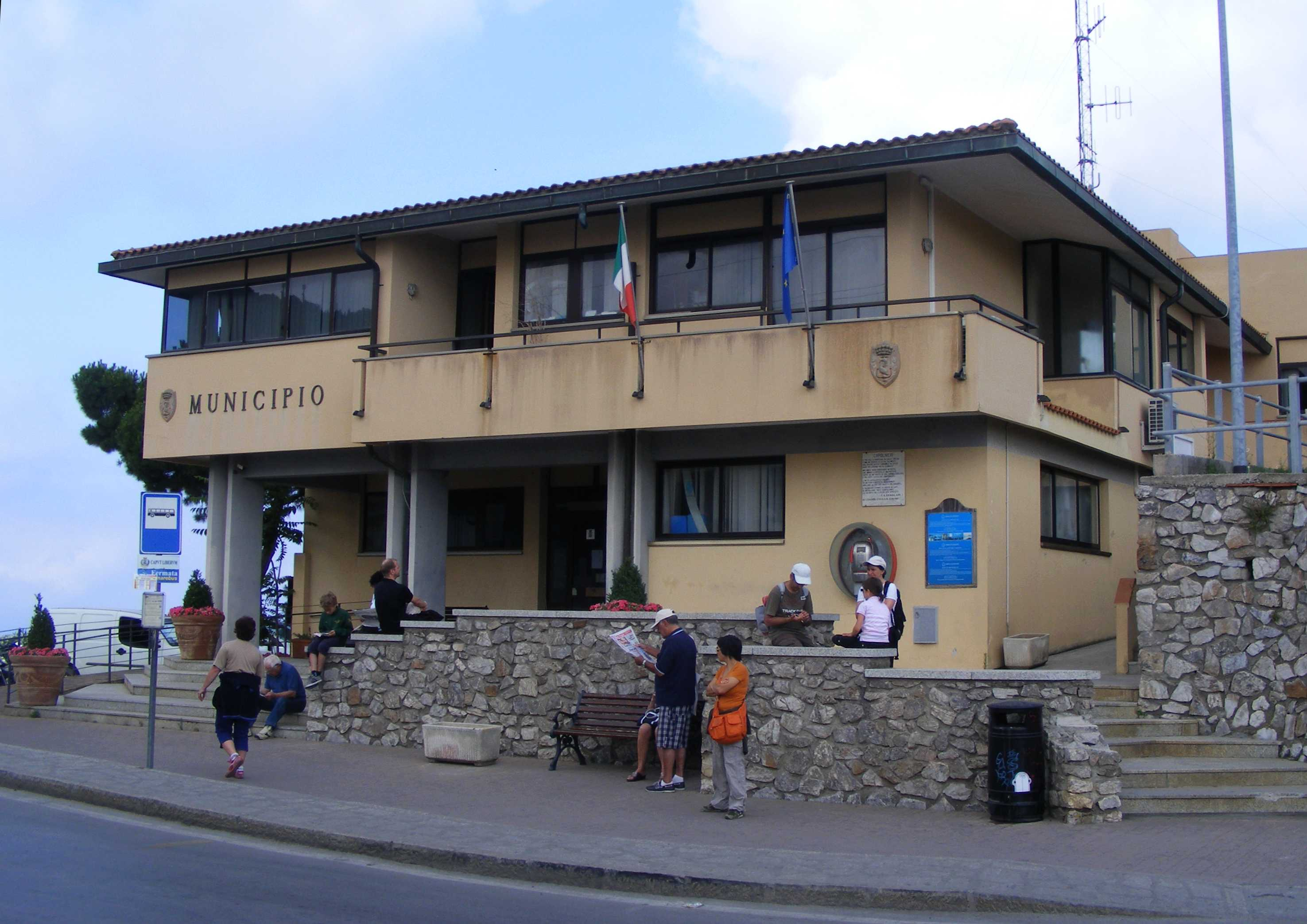 Capoliveri (LI, Italy): town hall